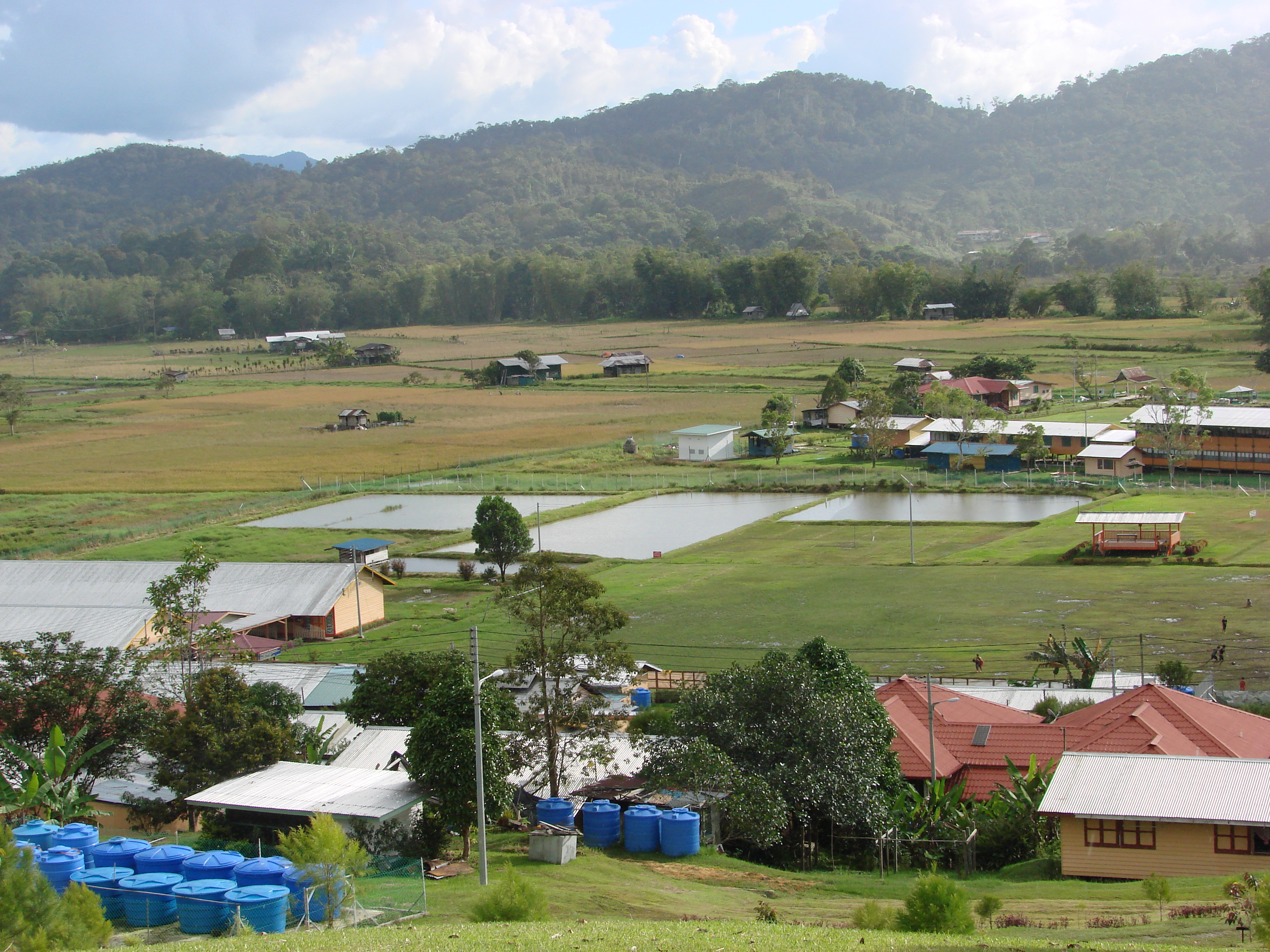 The view from the motivational park near the school in Bario, Malaysia.